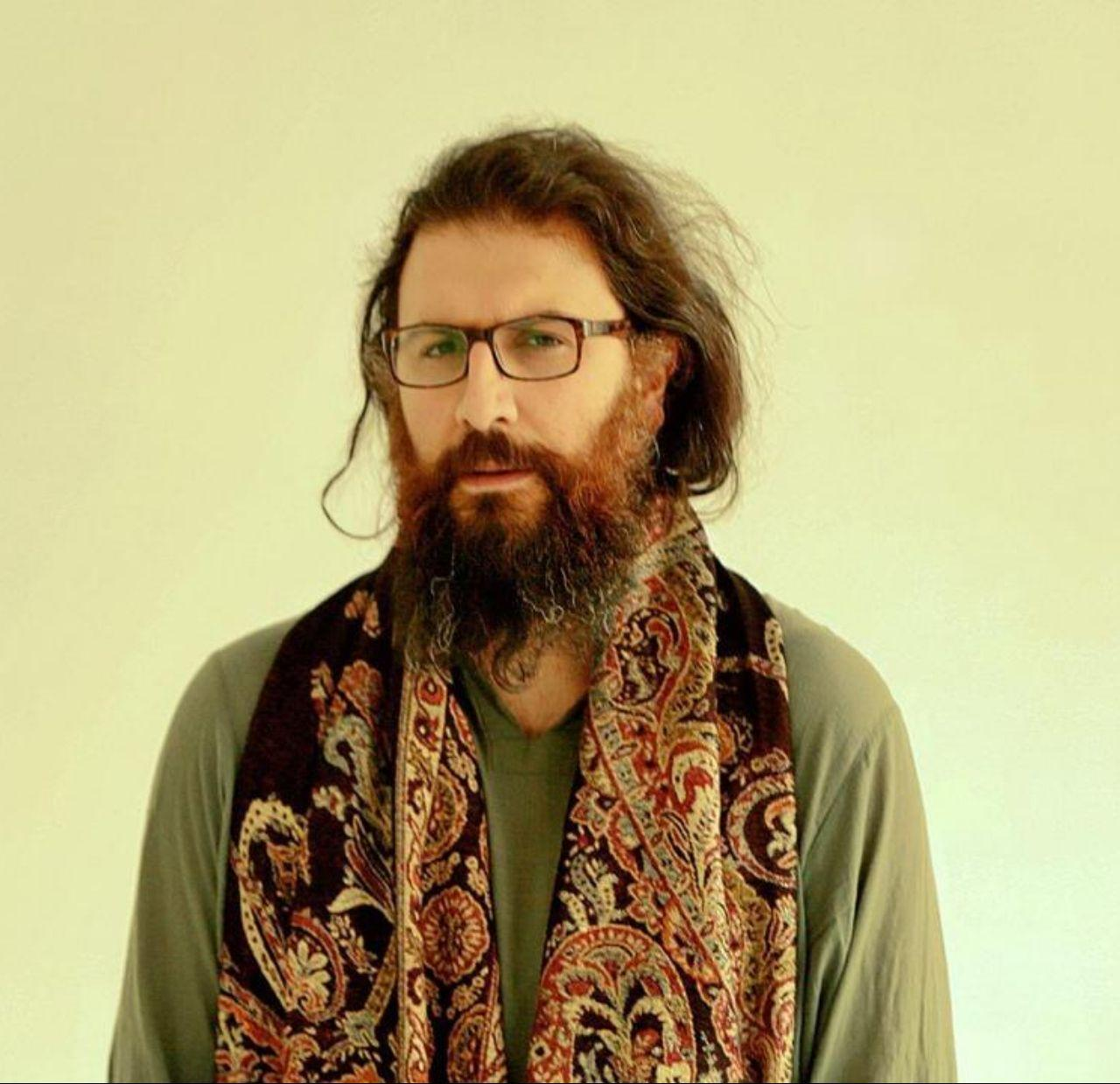 profile of Javad Jalali